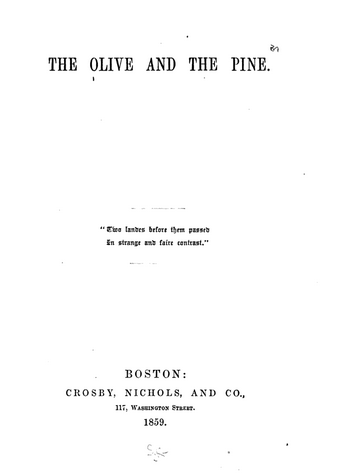 The Olive and the Pine ... (1859), By Martha Perry Lowe